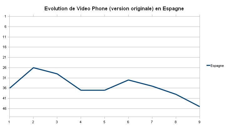 Evolution in the Spanish chart of the original version of the song Video Phone by Beyoncé Knowles.